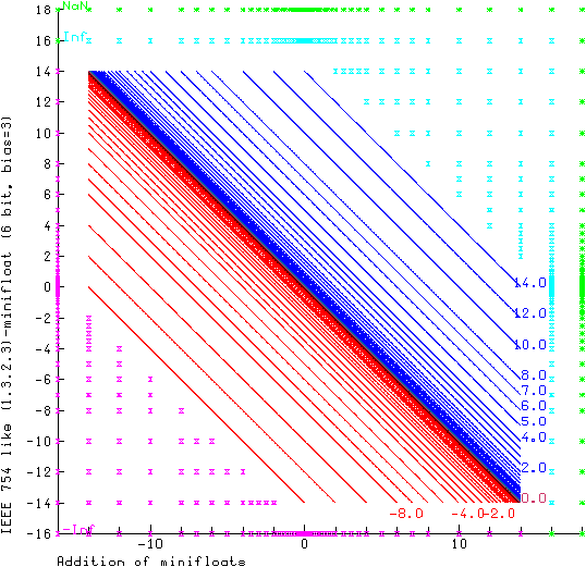 Sum of two minifloats with 1 sign bit s, 3 exponent bit e, 2 mantissa bit m and a bias of 3 analogues to IEEE-754-like floating point values. The different classes of IEEE 754 floating point values (NaN, infinite, normal, subnormal and zero) are highlighted with different colours and marked with symbols. NaN has the highest value and infinite has its own numerical value 2^17. Positive values are in blue and cyan, negative values are in red and magenta; NaN is represented in green.